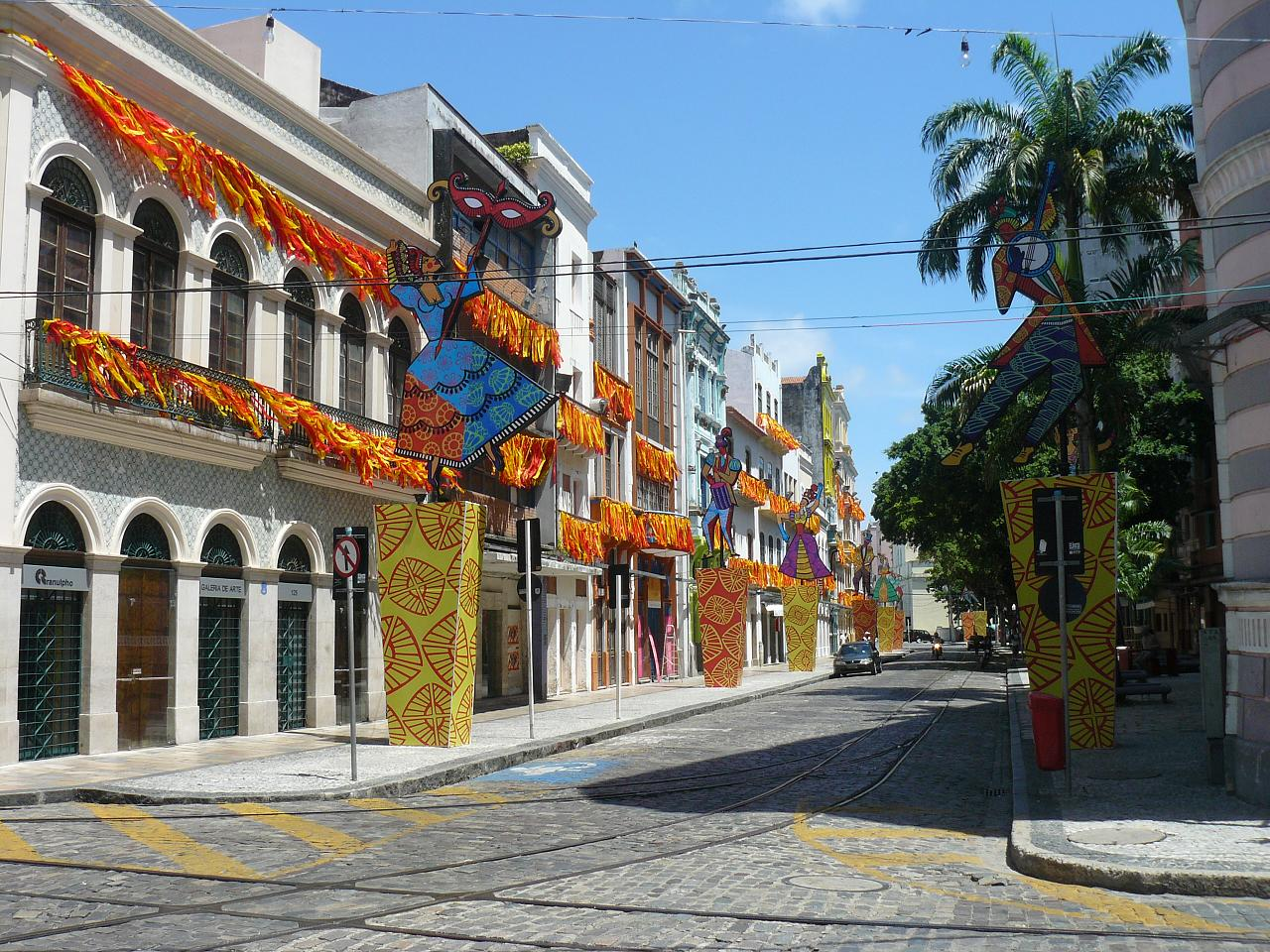 Old city centre of Recife, Brazil